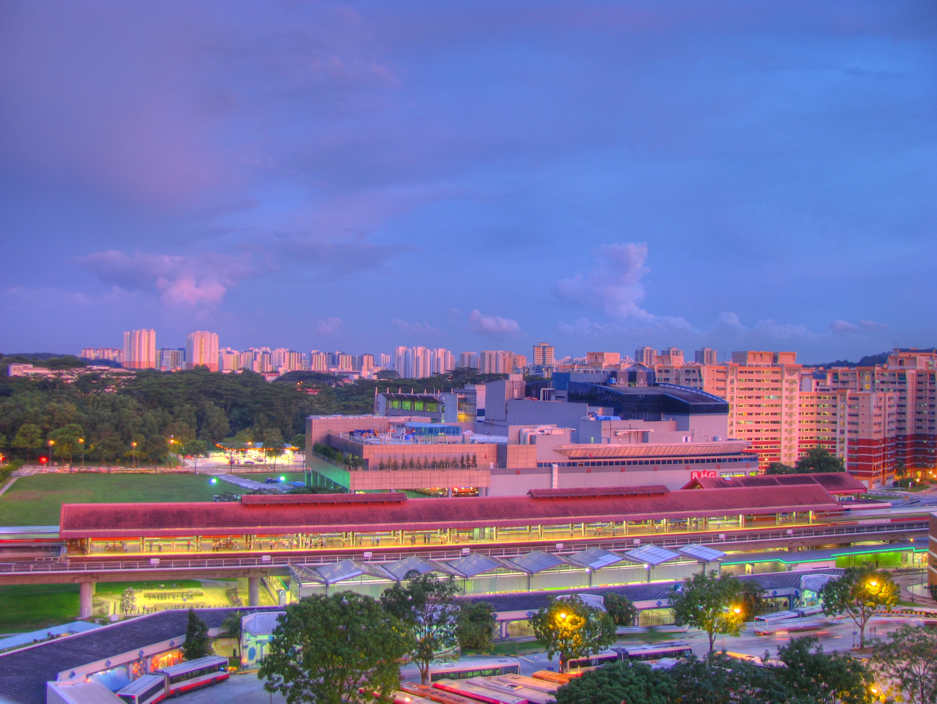 A HDR image of the Choa Chu Kang Town Centre, Singapore, showing the Choa Chu Kang MRT/LRT Station (NS4/BP1), the Choa Chu Kang Bus Interchange and Lot 1 Shoppers' Mall. The HDR image was processed from 5 differently exposed source images taken at dusk. Source images shot using Canon PowerShot SX100IS and batch processed using Photomatix.